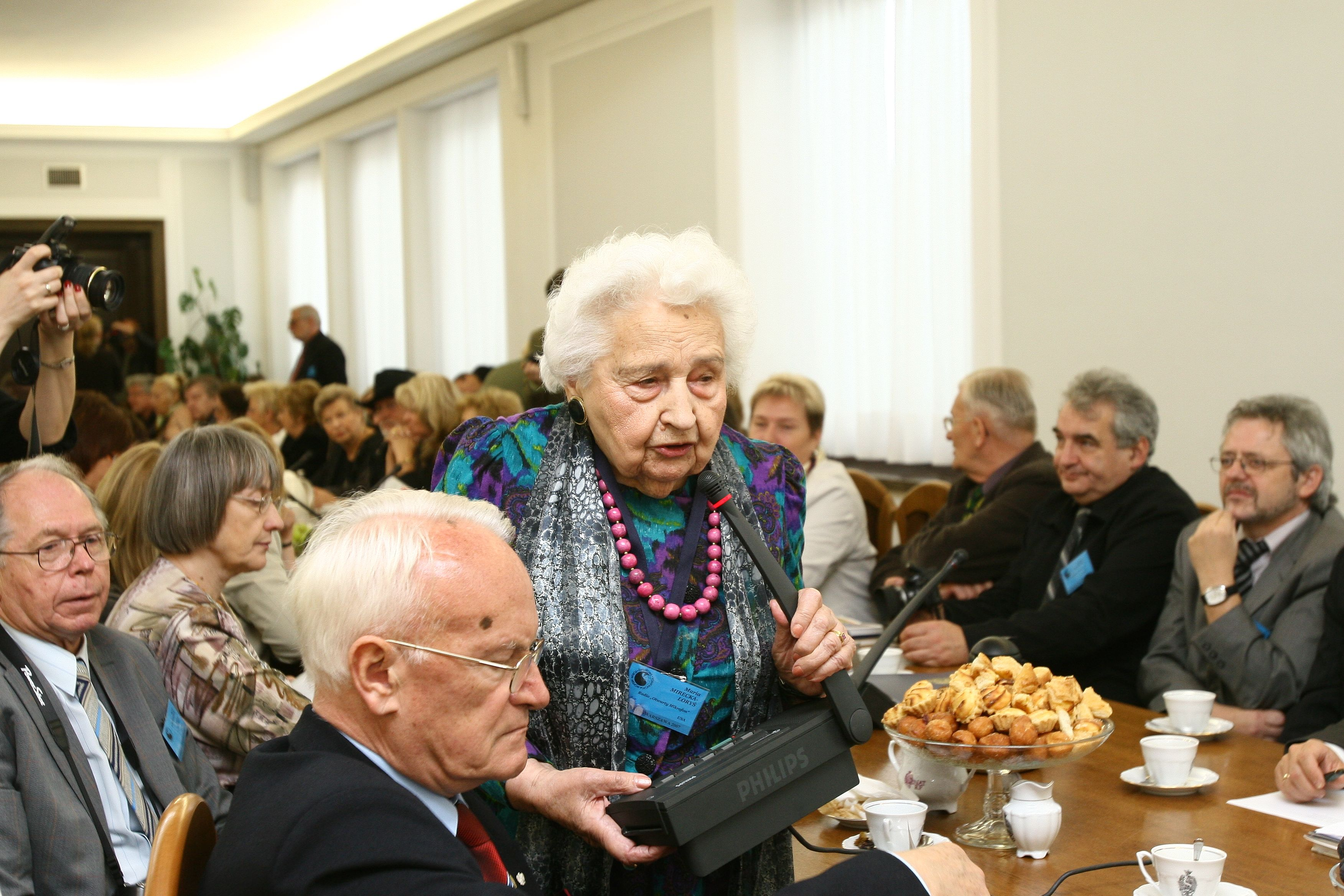 Maria Mirecka-Loryś during 15th World Polonia Press Forum in the Polish Senate